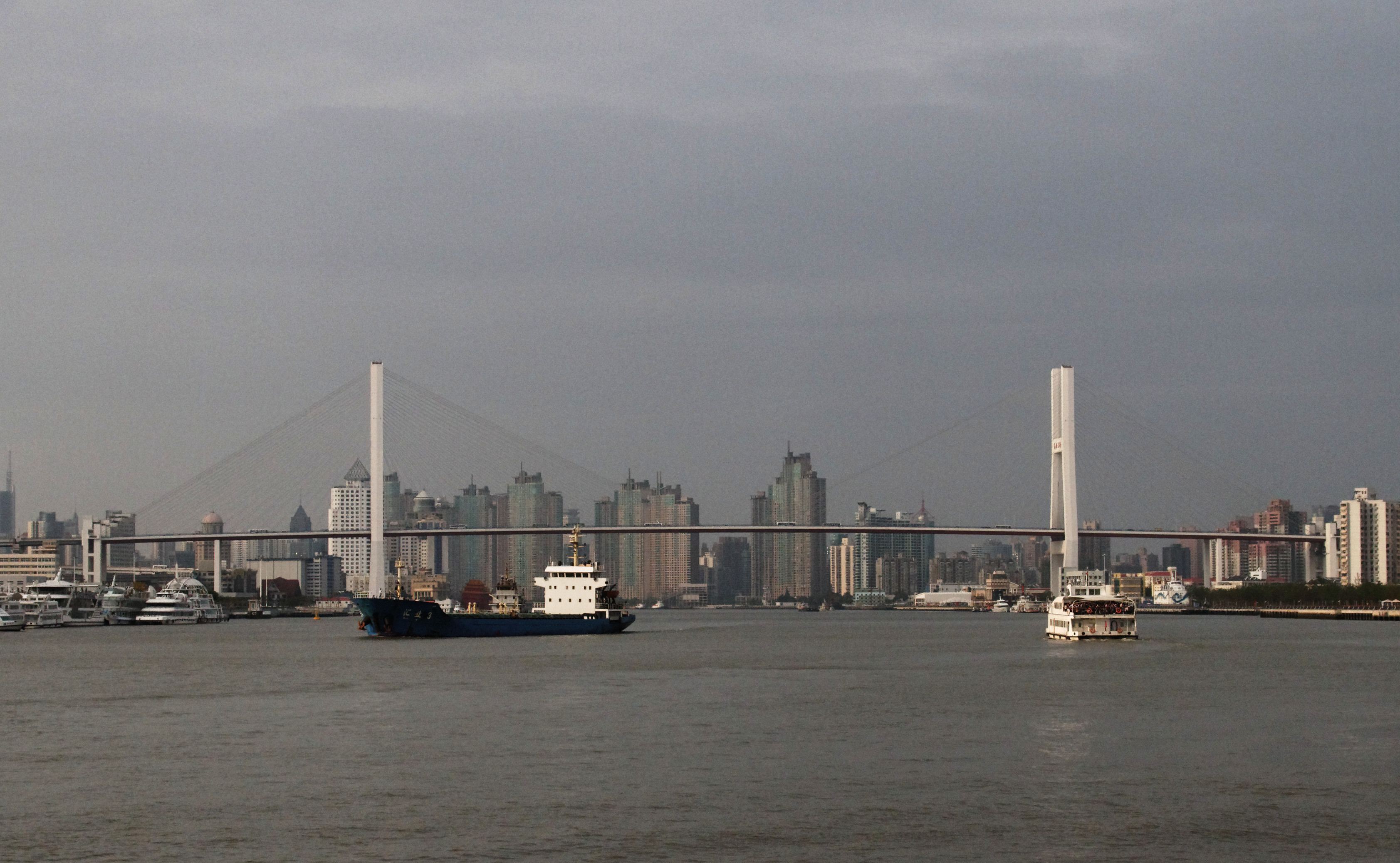 Nanpu Bridge in Shanghai